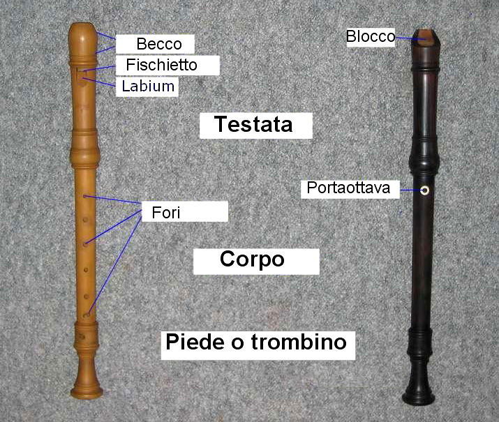 Italian names for the parts of a recorder